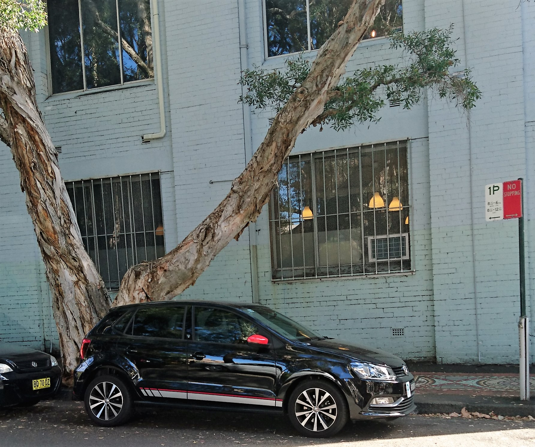 VW Polo Beat Edition